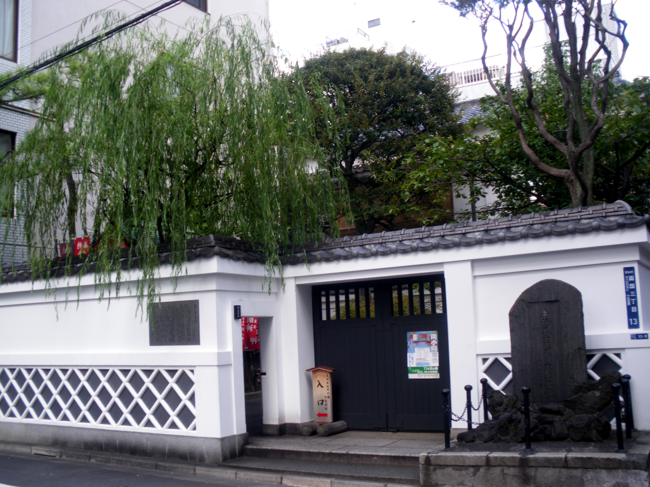 A photo of the entrance of HonjoMatsuzakacho Park,Ryogoku,Sumida-ku,Tokyo,Japan.